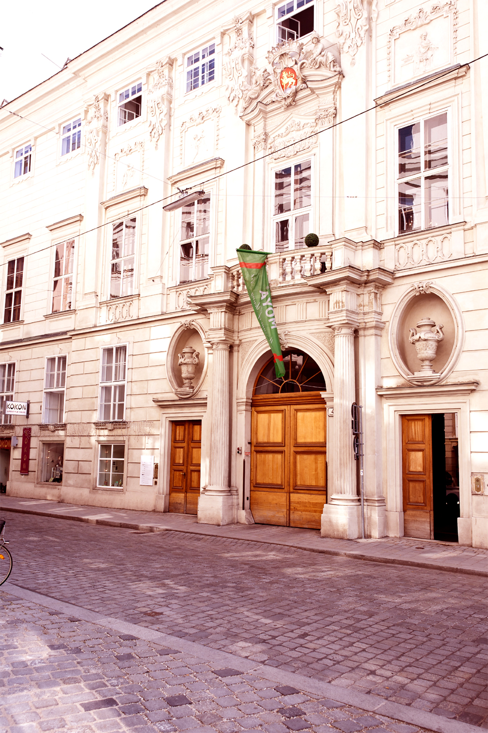 MOYA-Museum of Young Art in Palais Schönborn